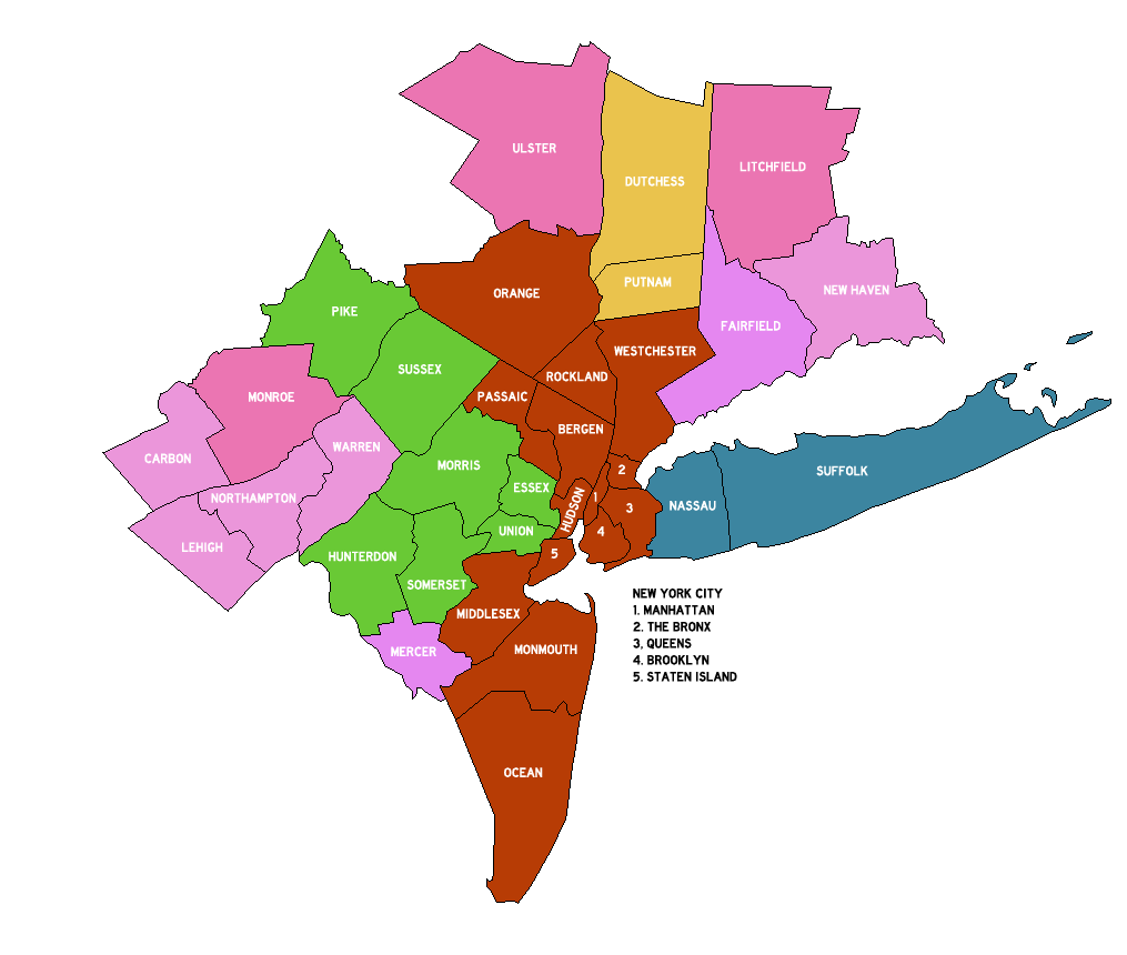 New York-Newark-Jersey City, NY-NJ-PA Metropolitan Statistical Area New York-Jersey City-White Plains, NY-NJ Metropolitan Division Dutchess County-Putnam County, NY Metropolitan Division Nassau County-Suffolk County, NY Metropolitan Division Newark, NJ-PA Metropolitan Division Rest of the New York-Newark, NY-NJ-CT-PA Combined Statistical Area